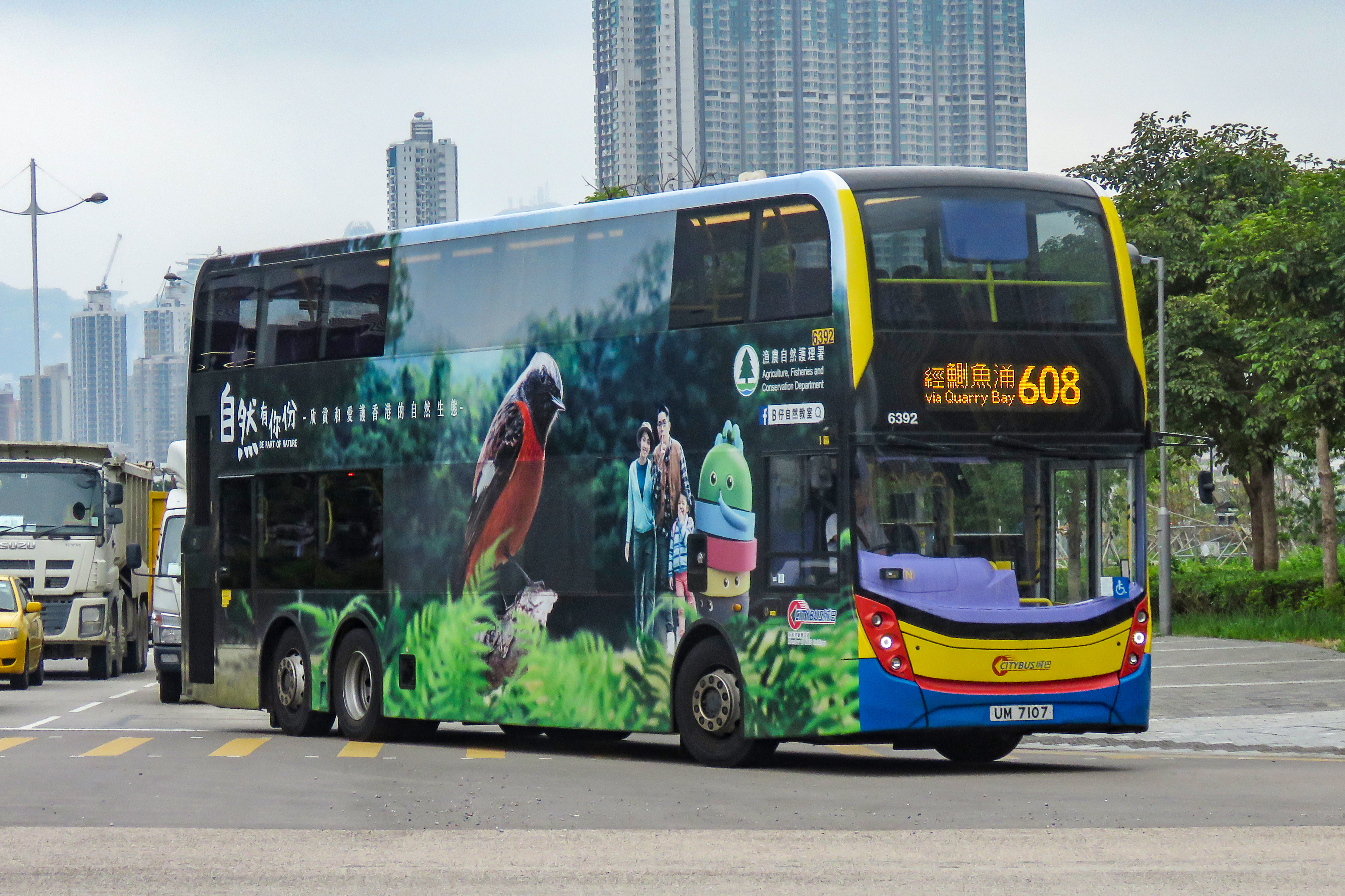 63xx started their show in Kai Tak.